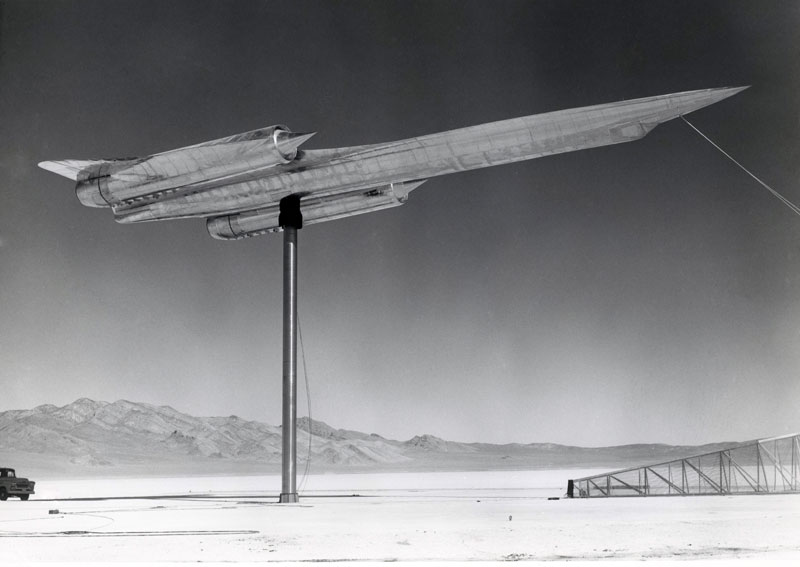 A-12 full scale model prepared for radar cross section measurements